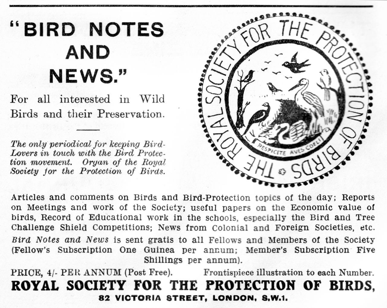 Royal Society for the Protection of Birds advertisement. The logo includes an (upper-case) caption in Latin: "respicite aves coeli" ("Look at the birds of the air").